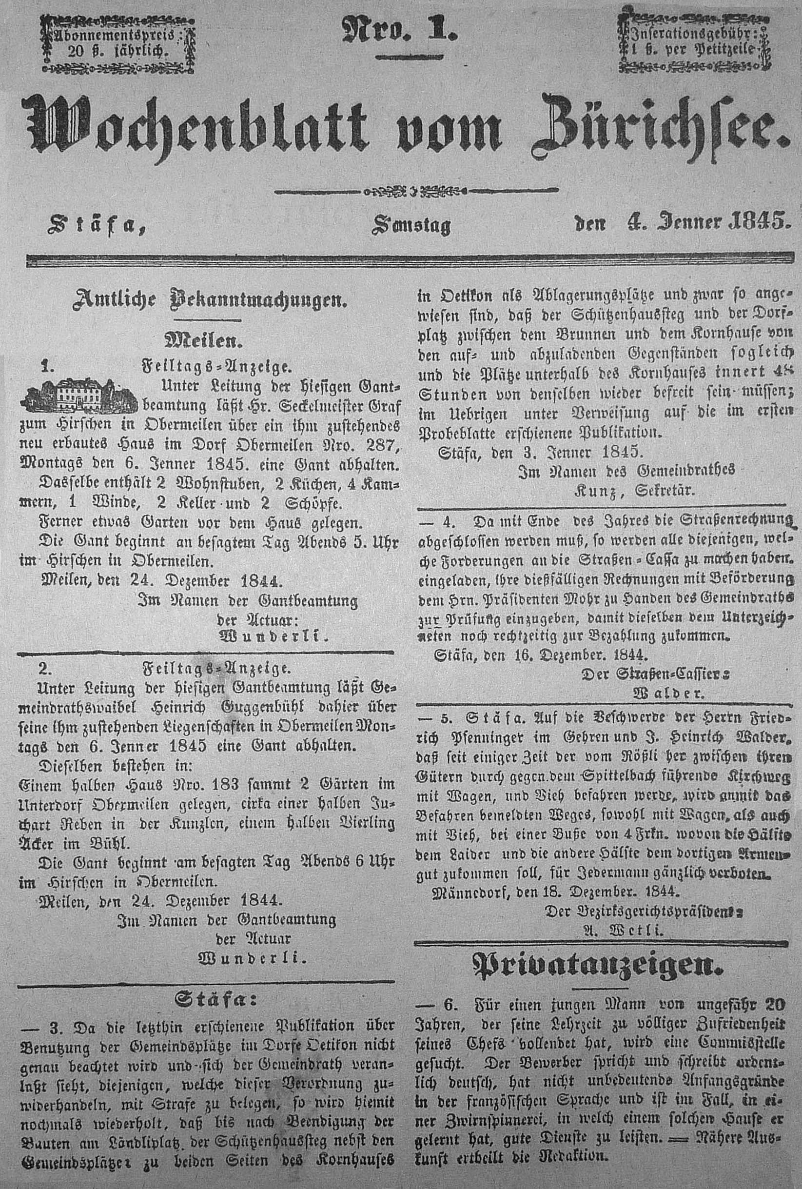 First edition of the Swiss newspaper Zürichsee-Zeitung